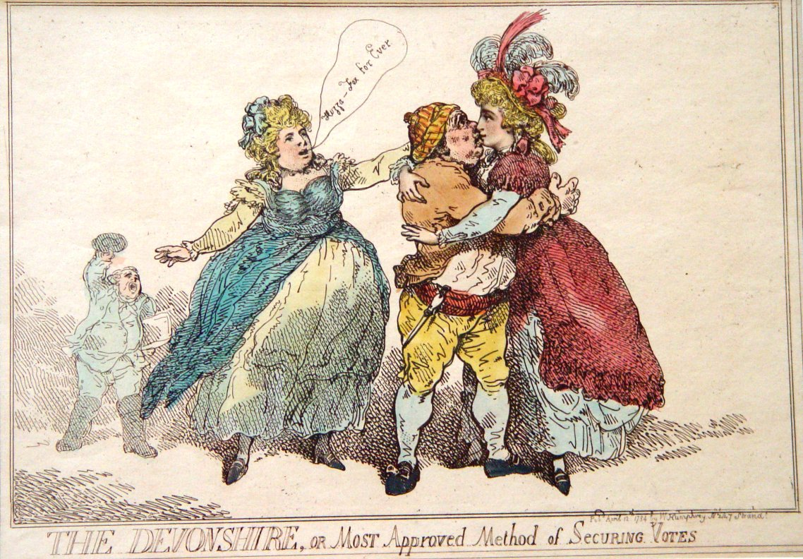 THE DEVONSHIRE, or Most Approved Method of Securing Votes, by Thomas Rowlandson. It is shown in the British film, The Duchess, in the scene where the Duchess and Charles Grey lie in bed reviewing the papers.